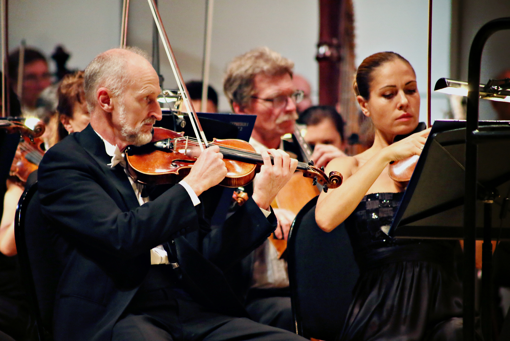 Alexei Bruni and Tatyana Porshneva, concertmasters of Russian National Orchestra